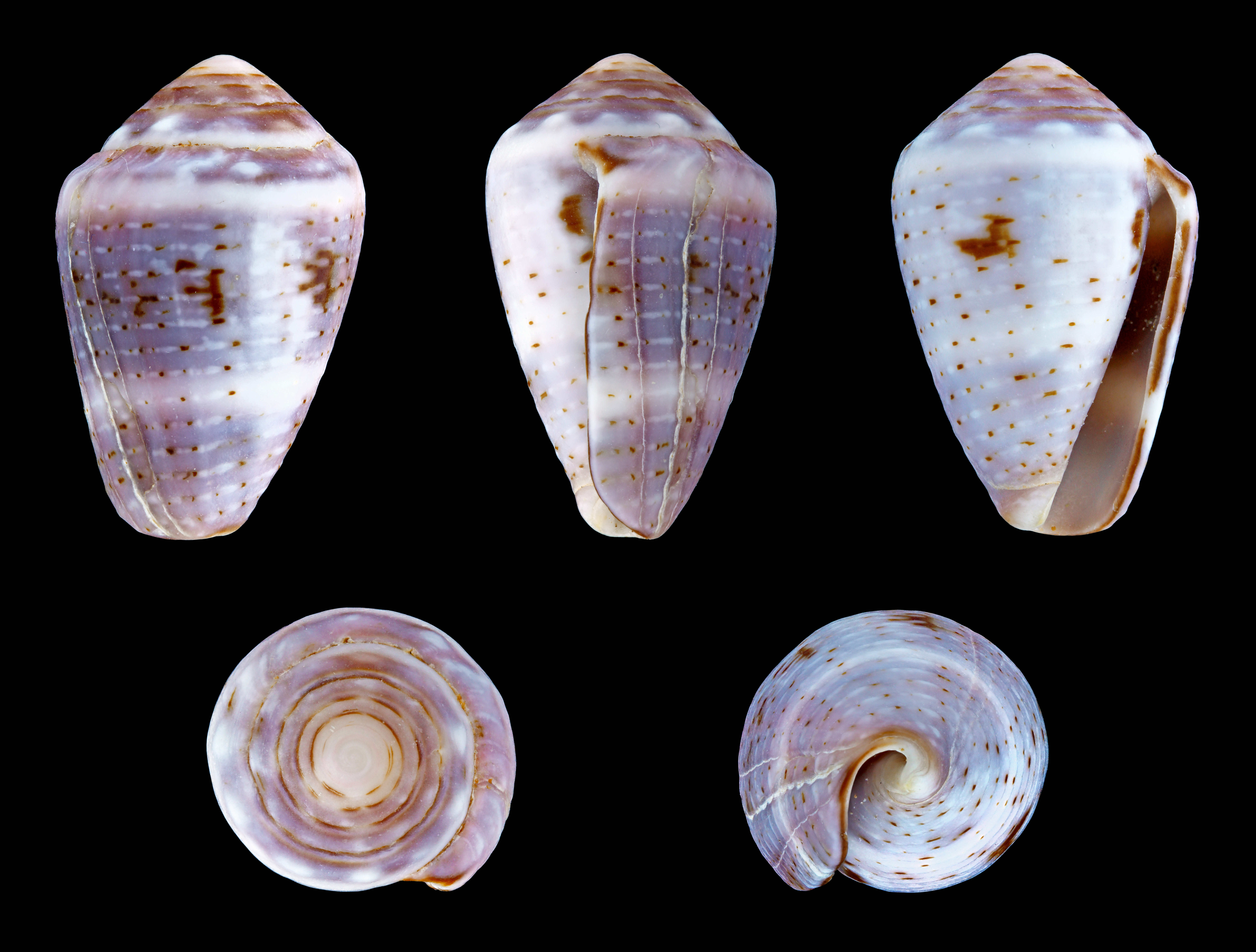 Coronate Cone; Length 2.4 cm; Originating from Khao Lak, Thailand; Shell of own collection, therefore not geocoded. Dorsal, lateral (right side), ventral, back, and front view.